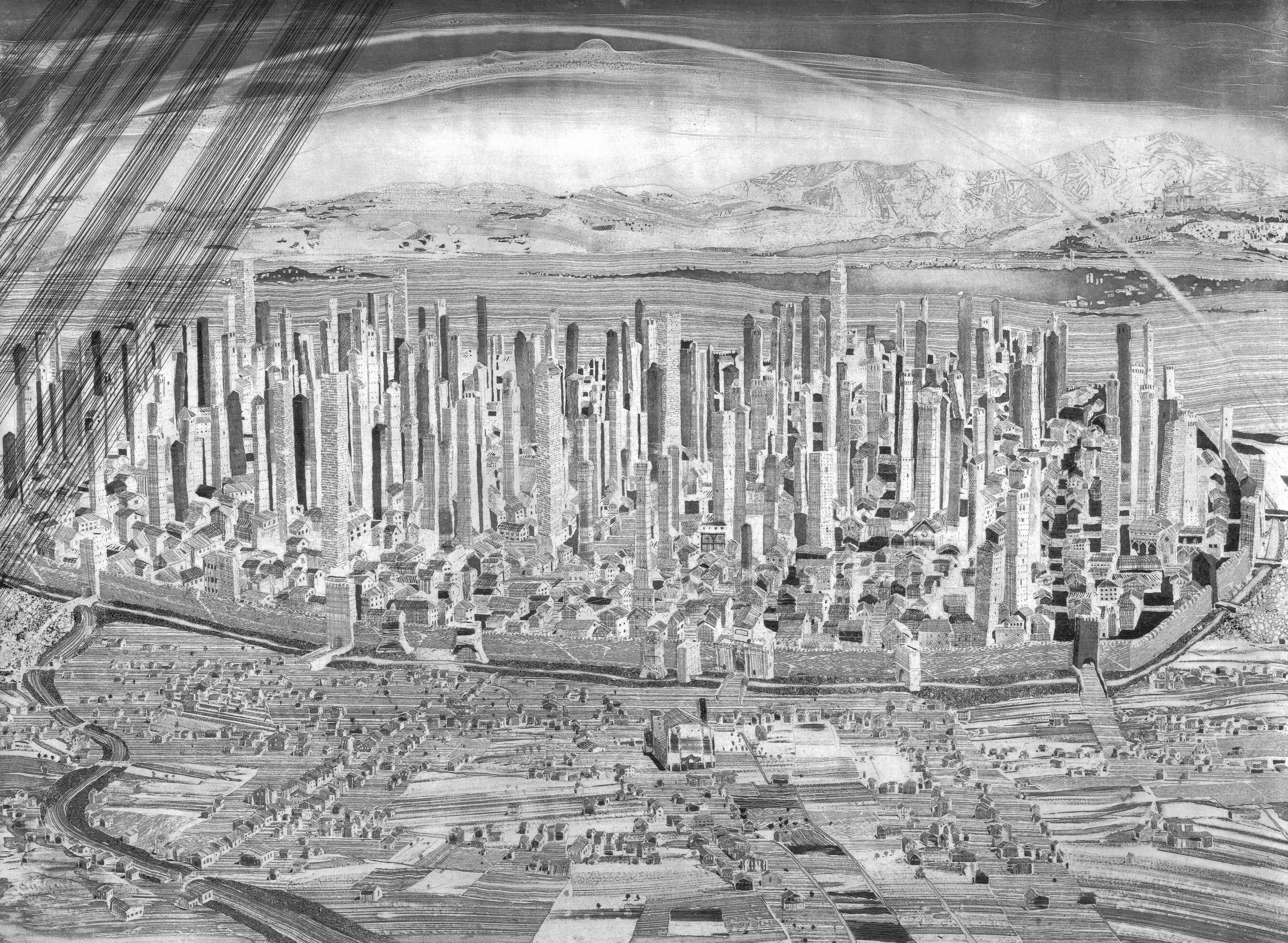 Medieval Bologna, etching, aquatint, soft-ground etching, mm. 500x668, Engraved and designed by Toni Pecoraro 2012.